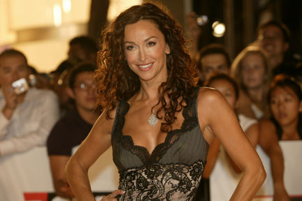 eTalk Star! Schmooze, Toronto International Film Festival party.